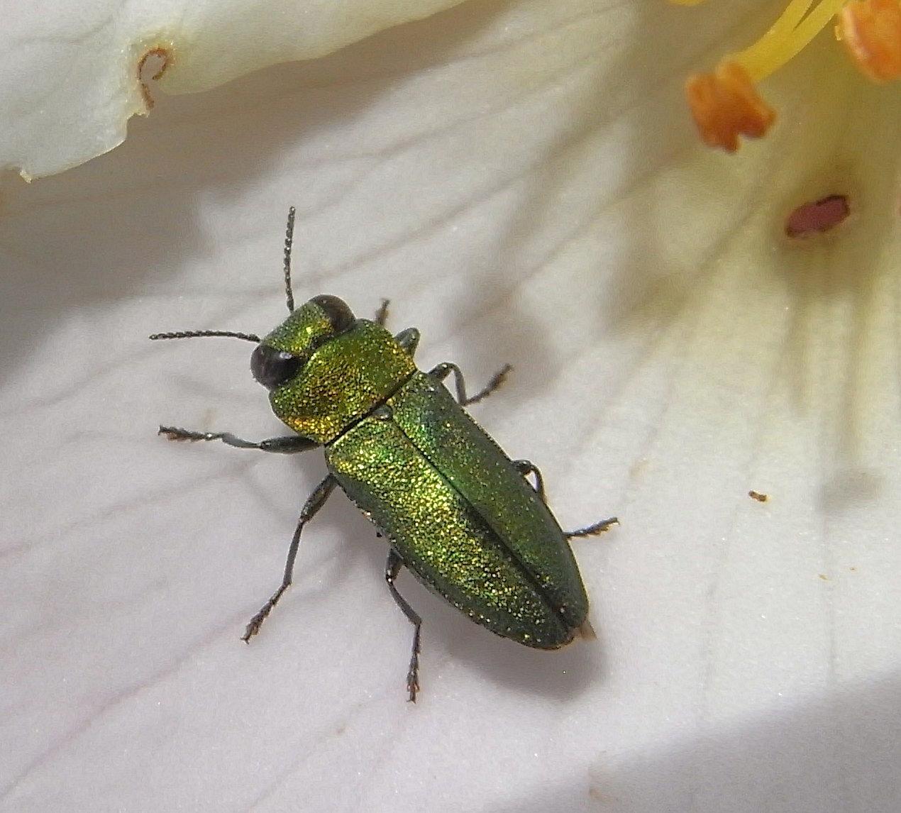 Anthaxia nitidula male from Hungary, at 2010-05-14 near MohacsRicoh R8